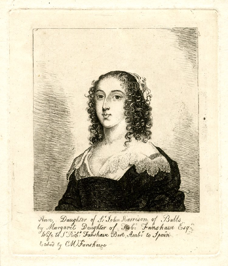 "Ann, Daughter of Sir John Harrison of Balls, by Margaret, daughter of Rob't. Fanshawe, Esq., wife to Sir Richard Fanshawe, Bart., Amb. to Spain. Etched by C. M. Fanshawe." Etching with drypoint by Catherine Maria Fanshawe. 125 mm x 107 mm. Courtesy of the British Museum, London.